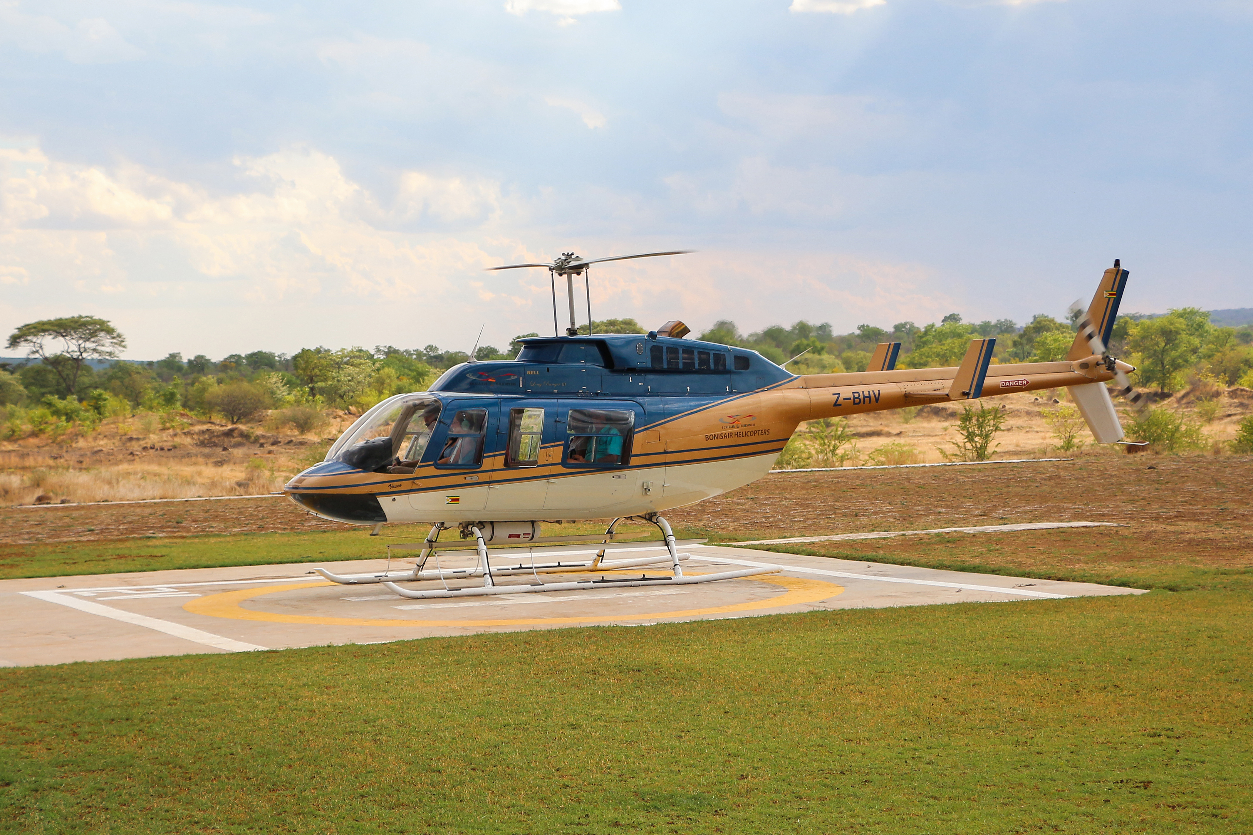 Bell 206L3 LongRanger III, Bonisair Helicopters, Zimbabwe